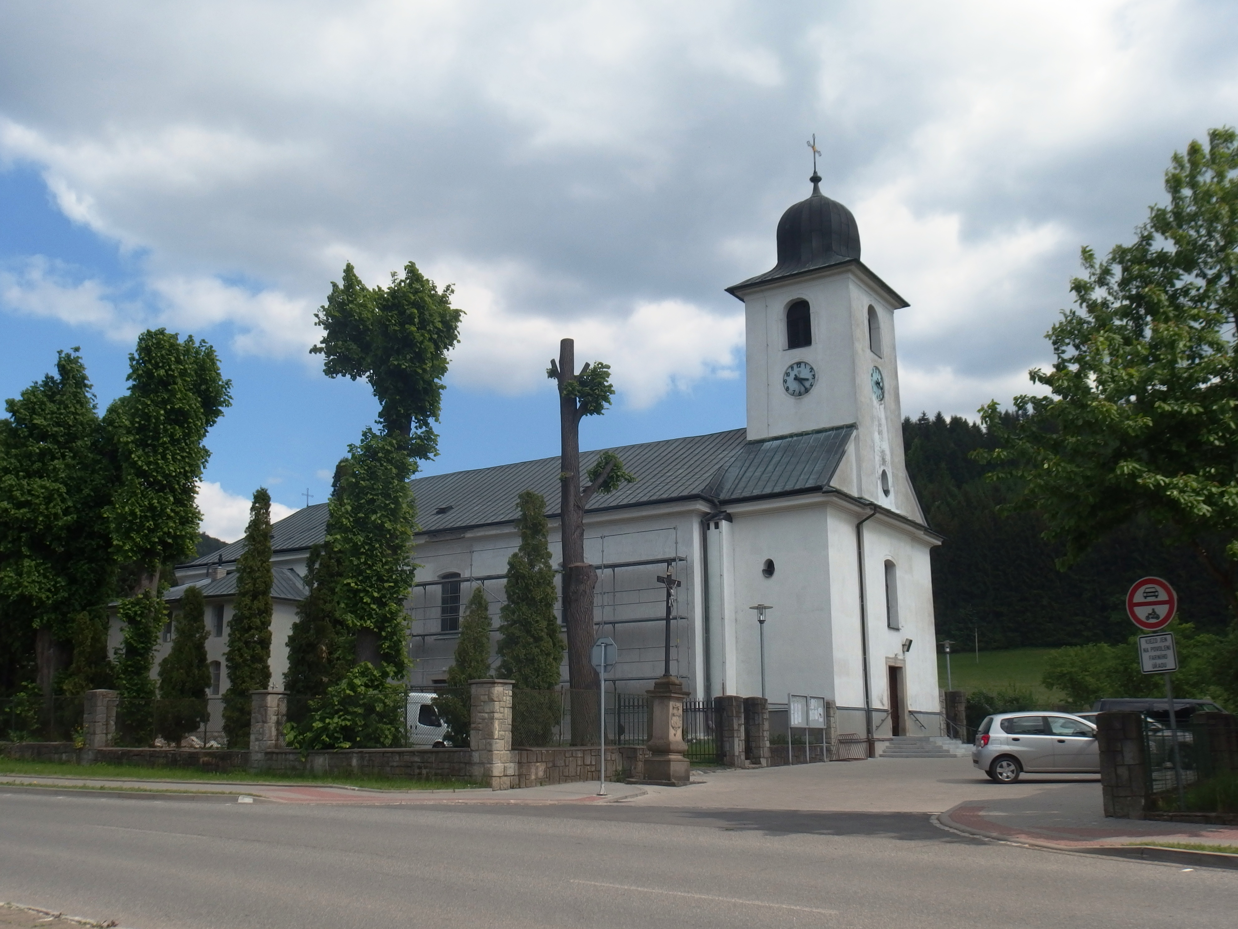 Halenkov, Vsetín District, Czech Republic.